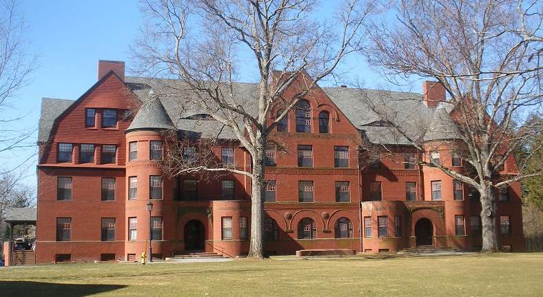 Draper Hall at Abbot Academy in 2013, being used for apartments